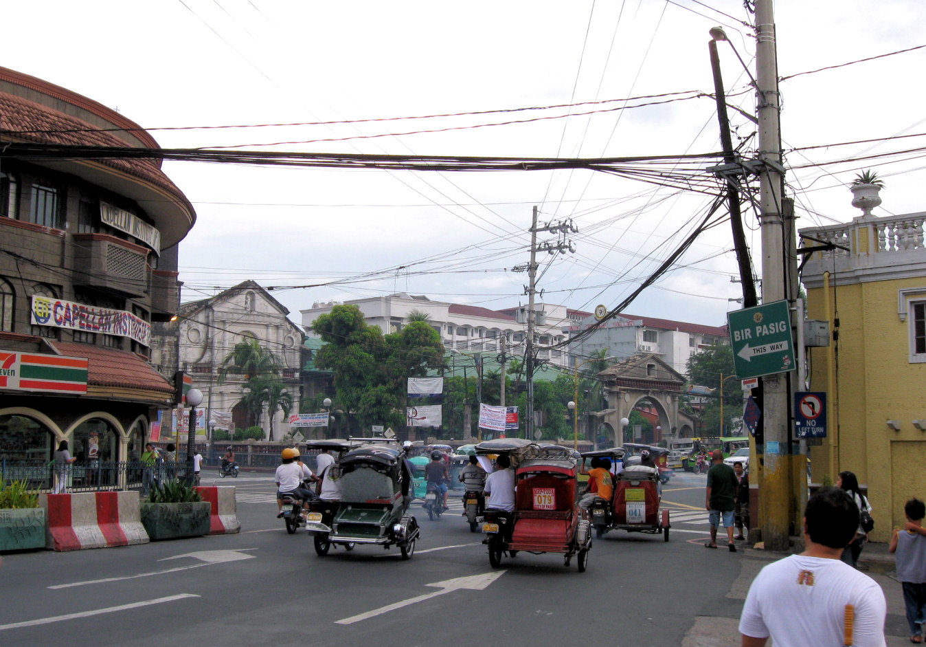 Old city center of Pasig City, the Philippines